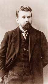 Russian Composer Gretschanoniv Alexandr (~1910)